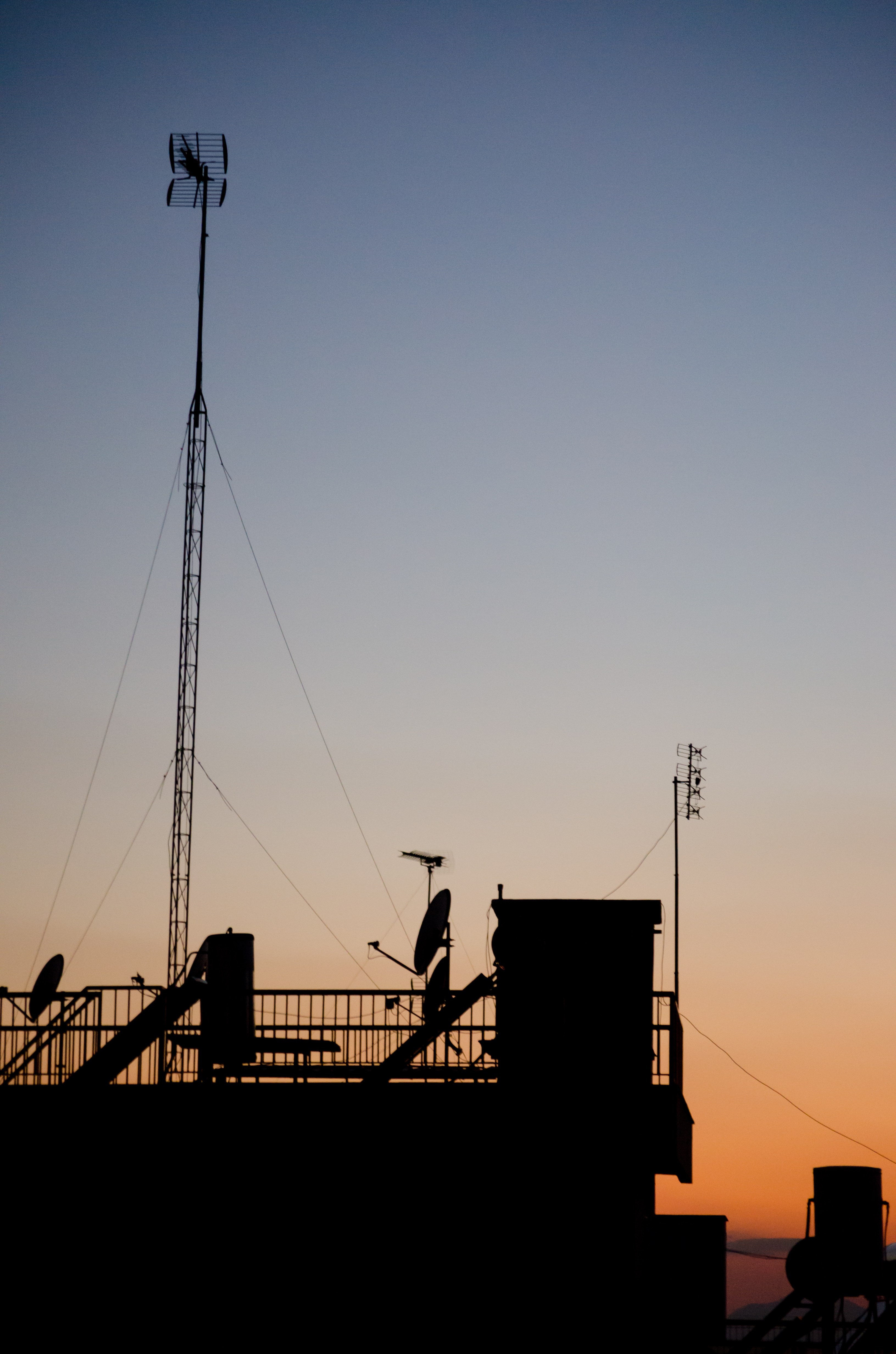 Antenna (radio)